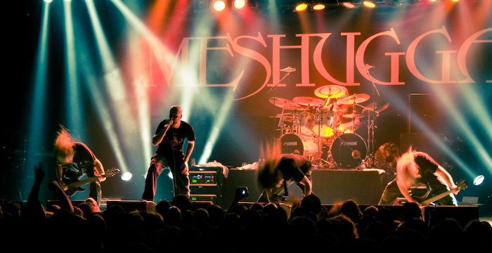 Swedish band Meshuggah performing on a live show in Melbourne - October 15, 2008.